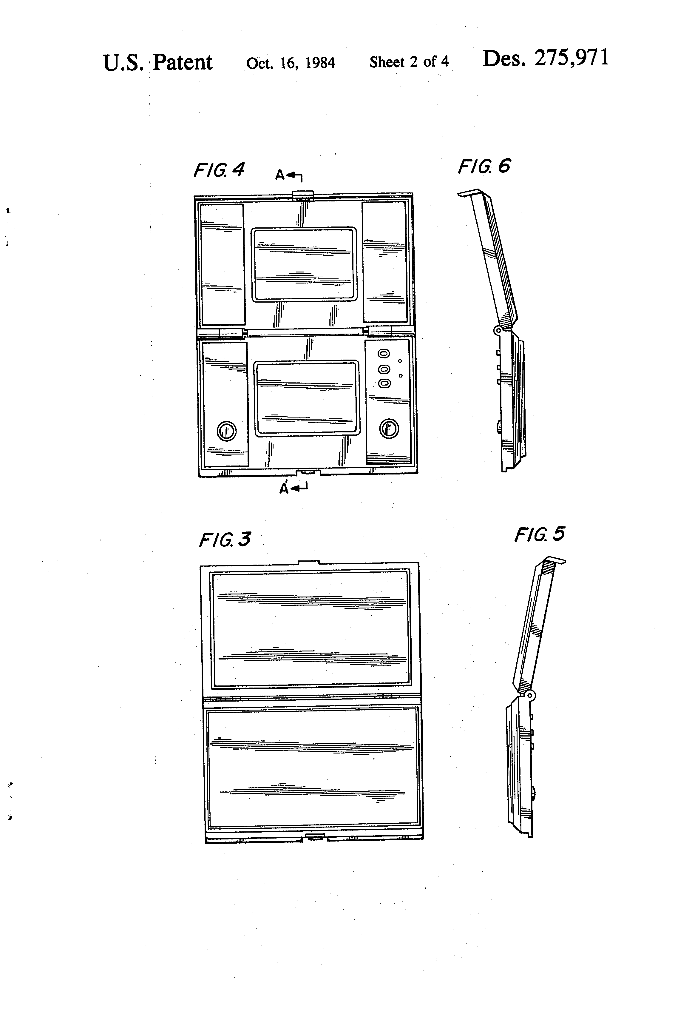 Patent image created by Gunpei Yokoi for Nintendo. The patent, filed in 1982, shows a Game & Watch handheld gaming device from four different perspectives.